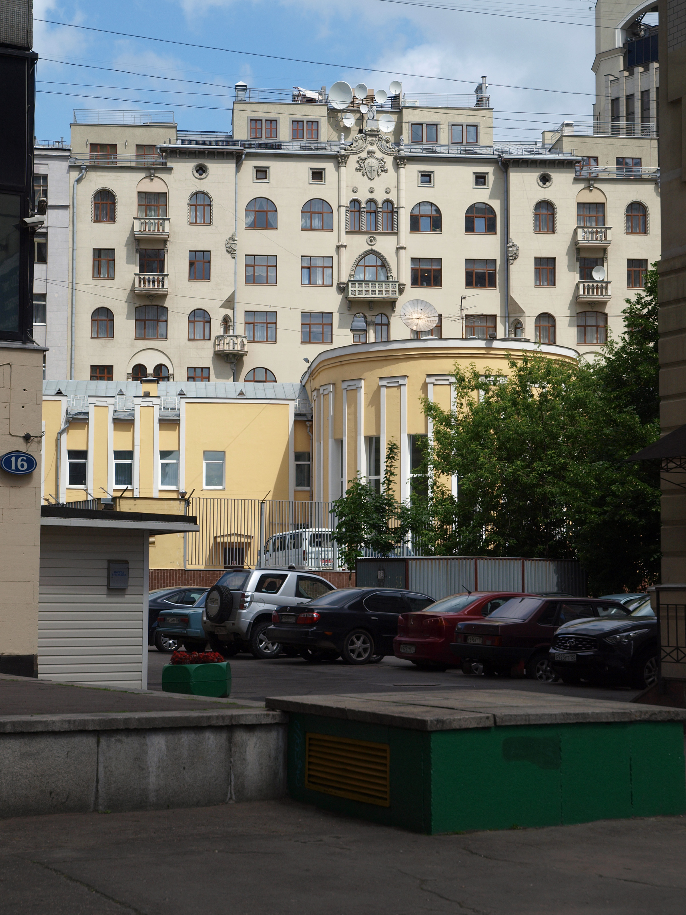 Embassy of Belgium in Moscow (yellow bldg - view from back)